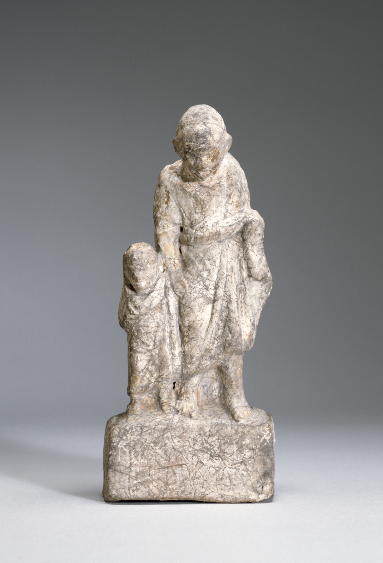 A pedagogue was an adult male who supervised the moral and social education of a young boy. In Hellenistic times, boys and girls attended privately funded elementary schools, but formal education beyond this level was exclusively for boys.